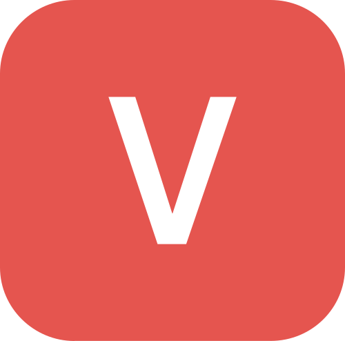 V Danhai LRT